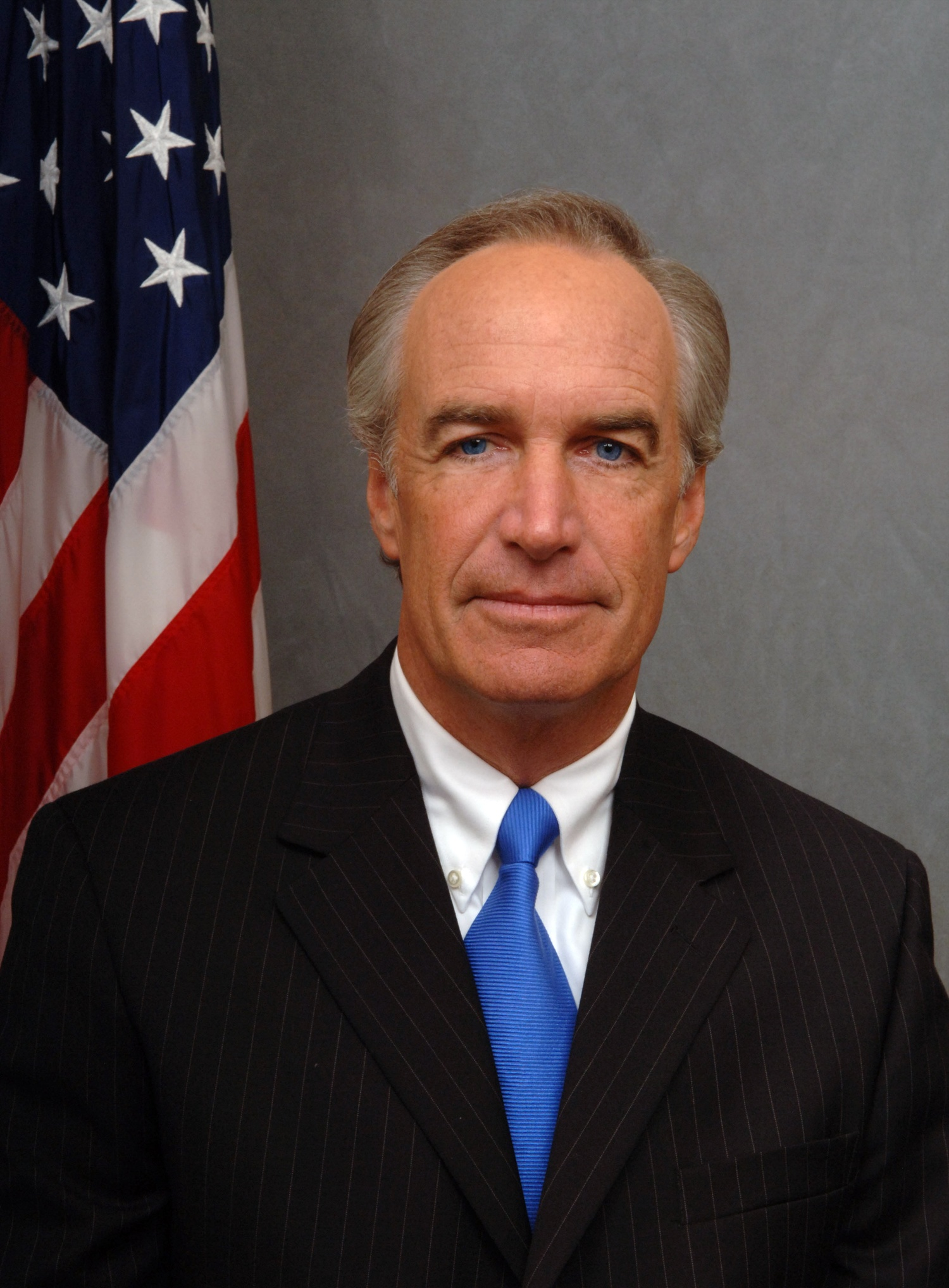 Official portrait photograph of Dirk Kempthorne, Secretary of the Interior